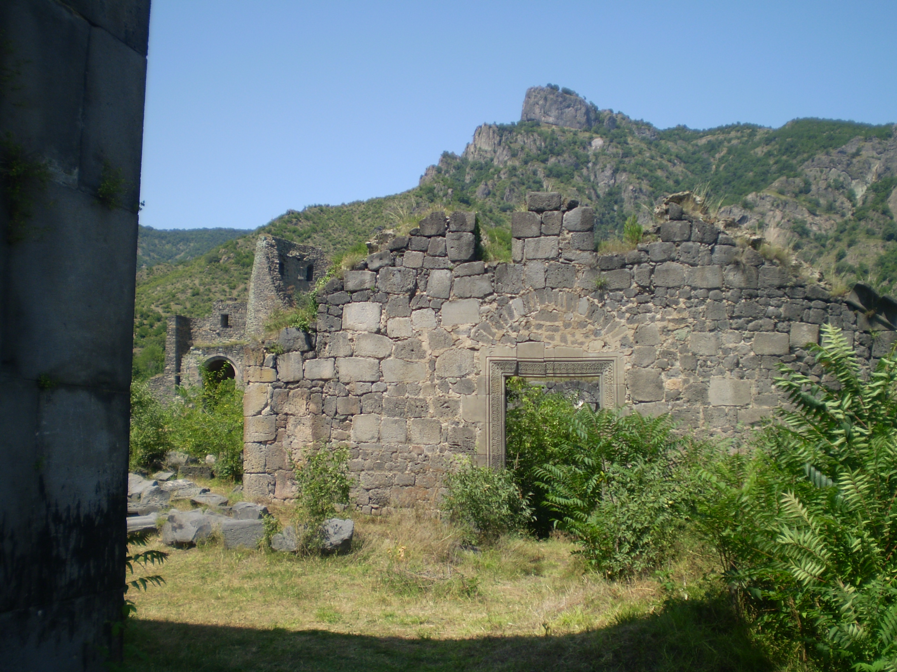 Ruins inside Akhtala monastery.